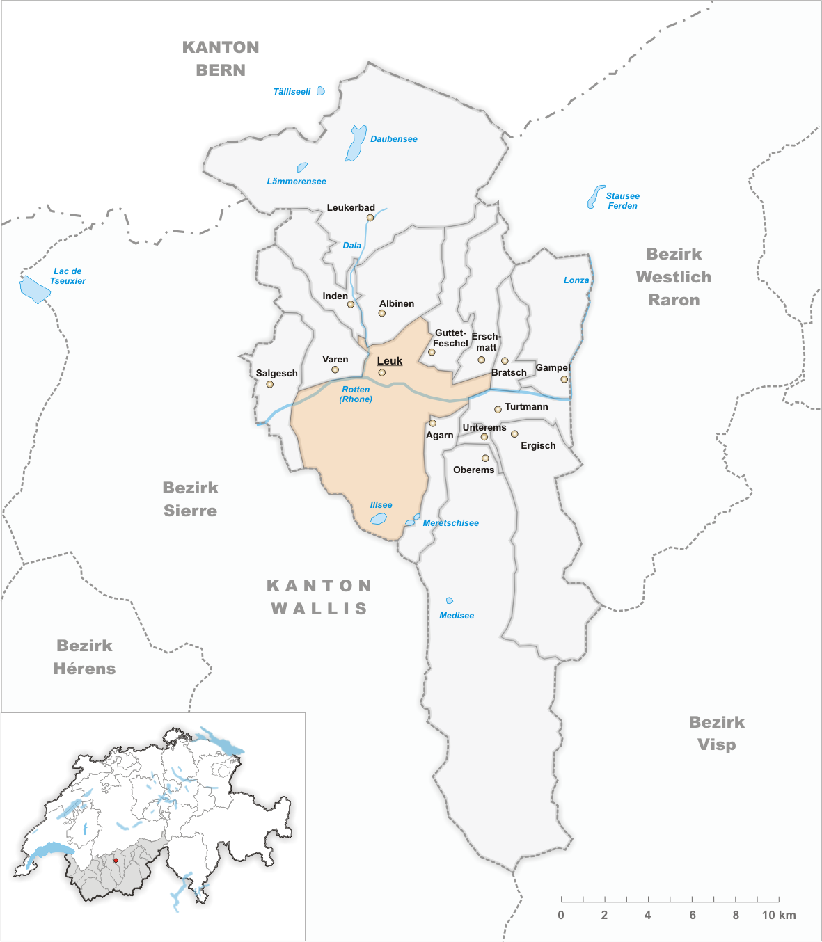 Municipality Leuk